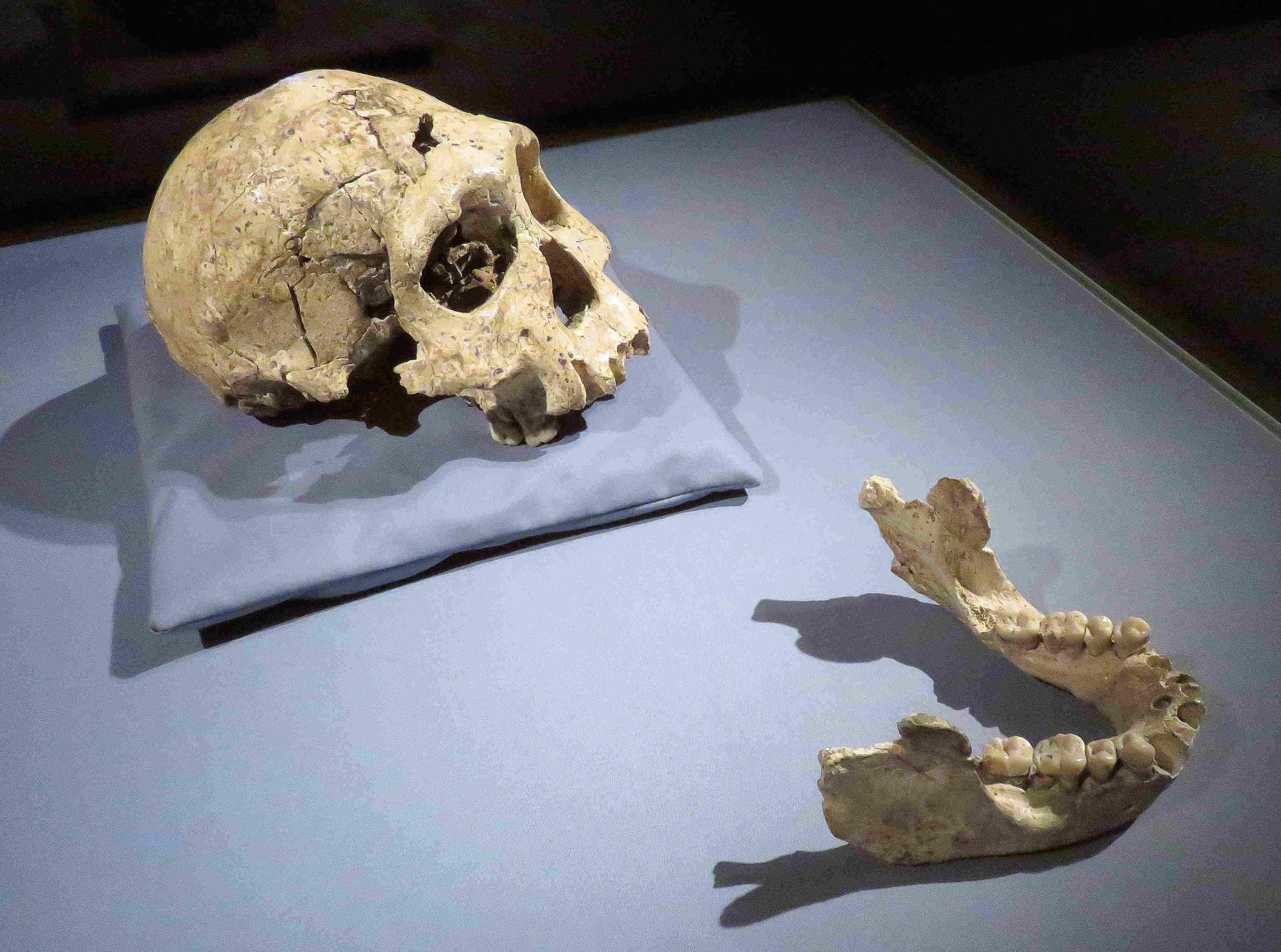 Dmanisi fossils D2700 + D2735 (Original)